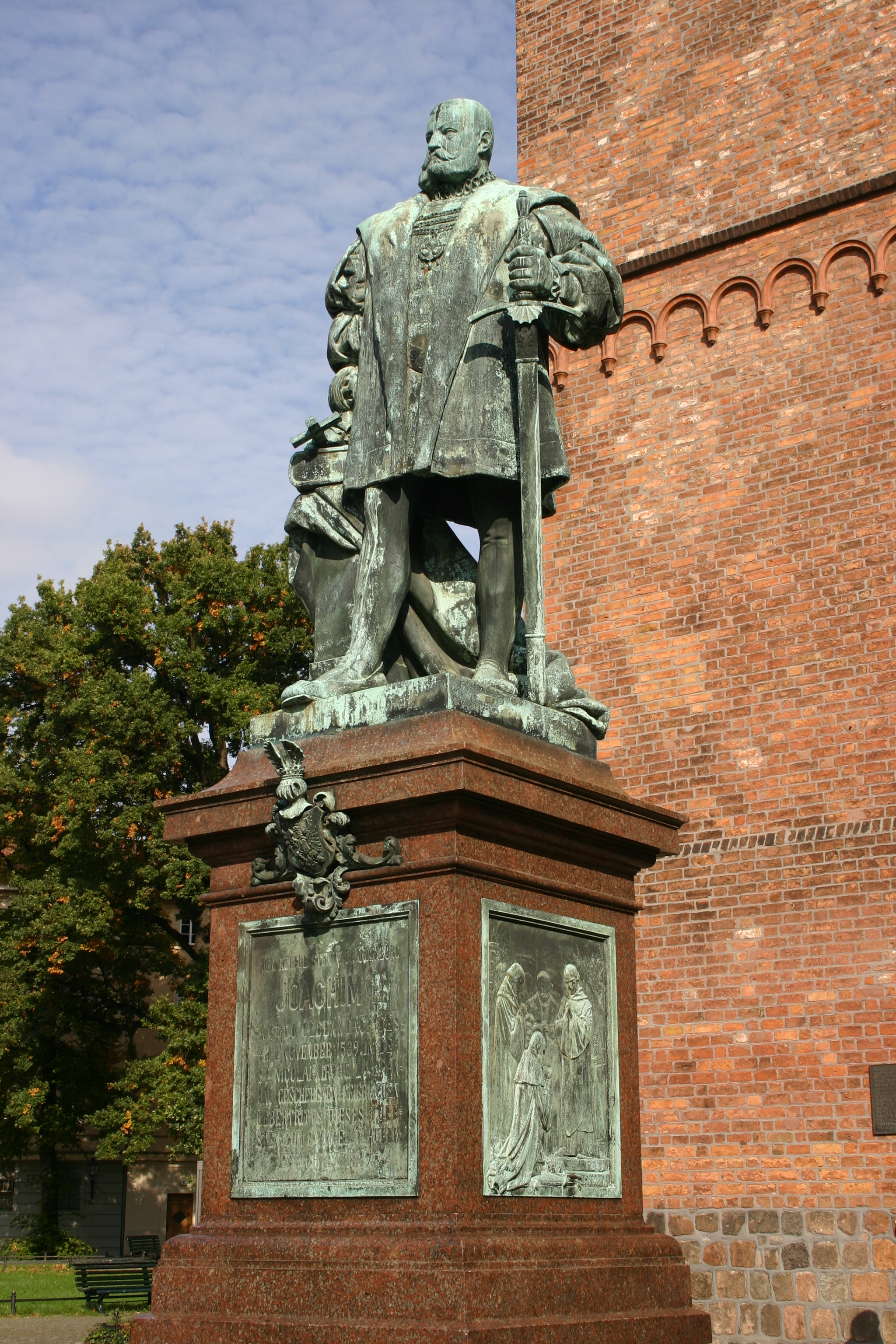 Monument of Joachim II. in Berlin-Spandau